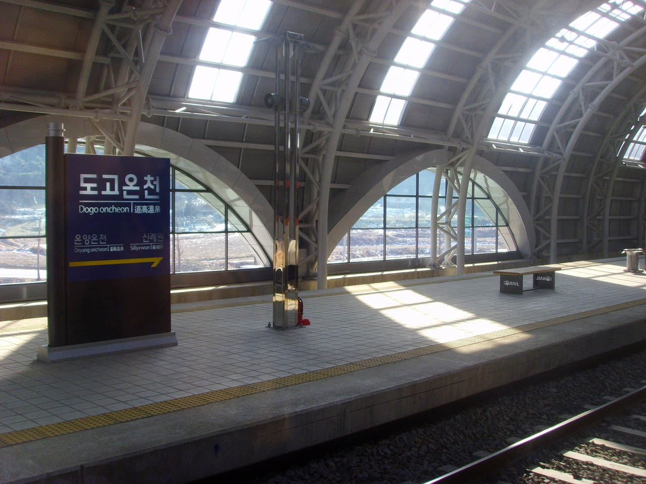 Janghang Line Dogo Oncheon (Spa) Station (Sijeon-ri, Dogo-myeon, Asan, Chungcheongnam-do, South Korea)